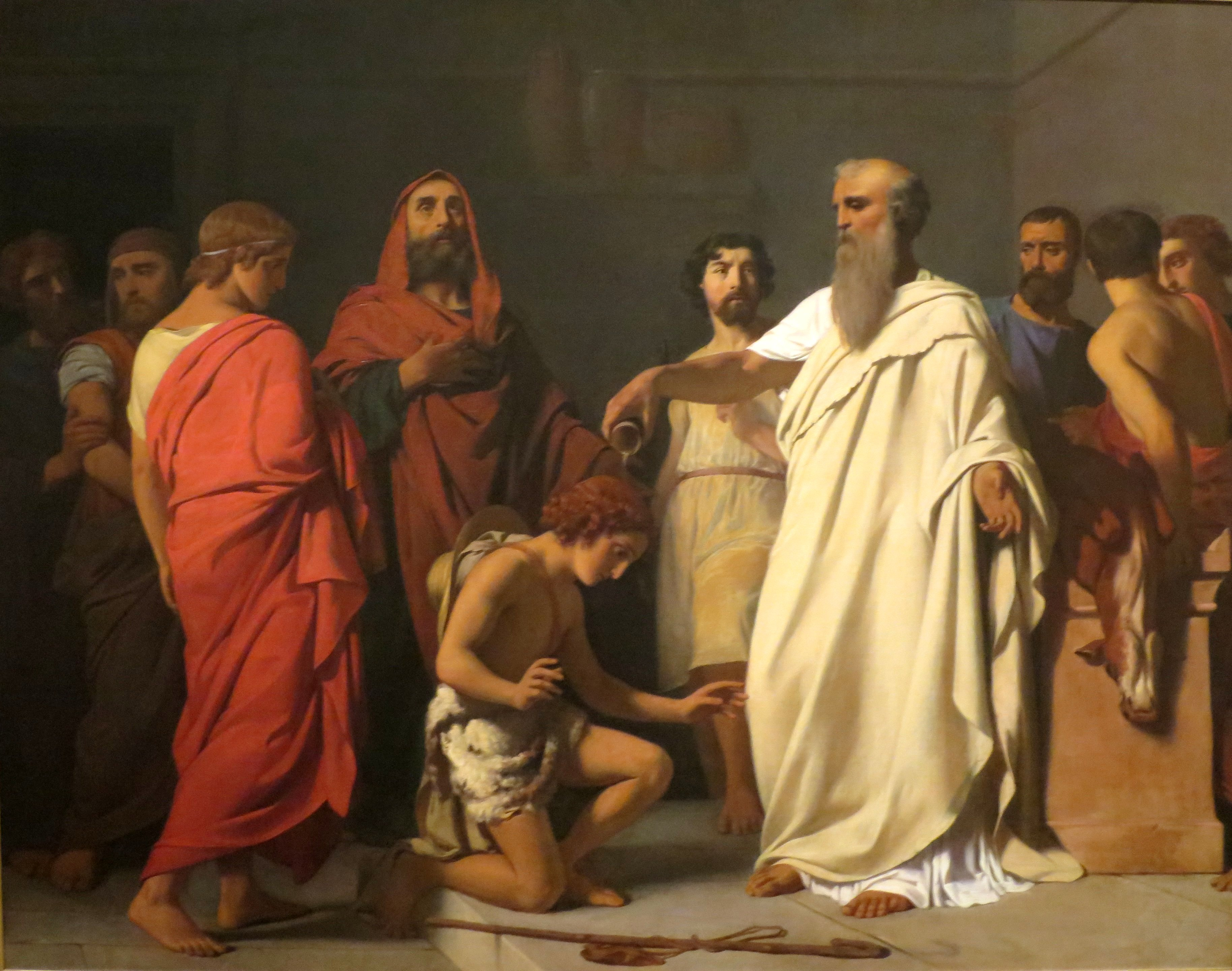 The Anointing of David by Samuel